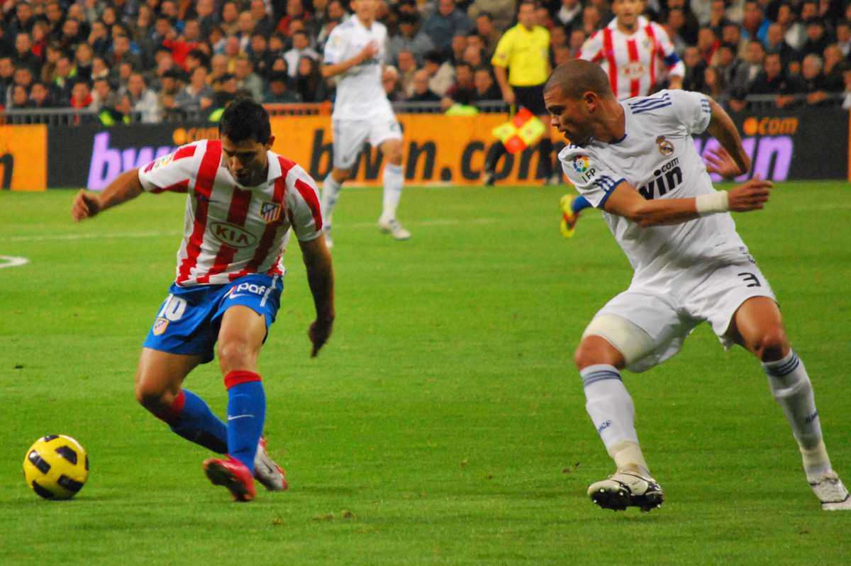 Pepe and Aguero "La Liga" 7 November 2010 Real Madrid 2 - Atletico 0